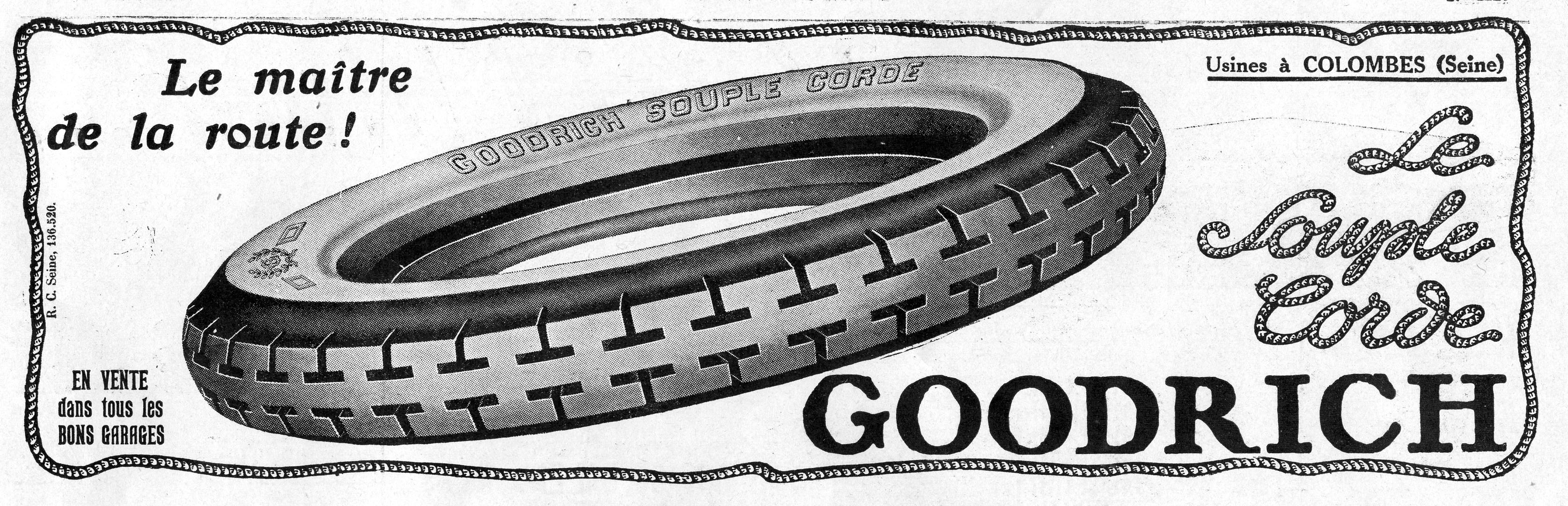 Goodrich advertisement of 1923